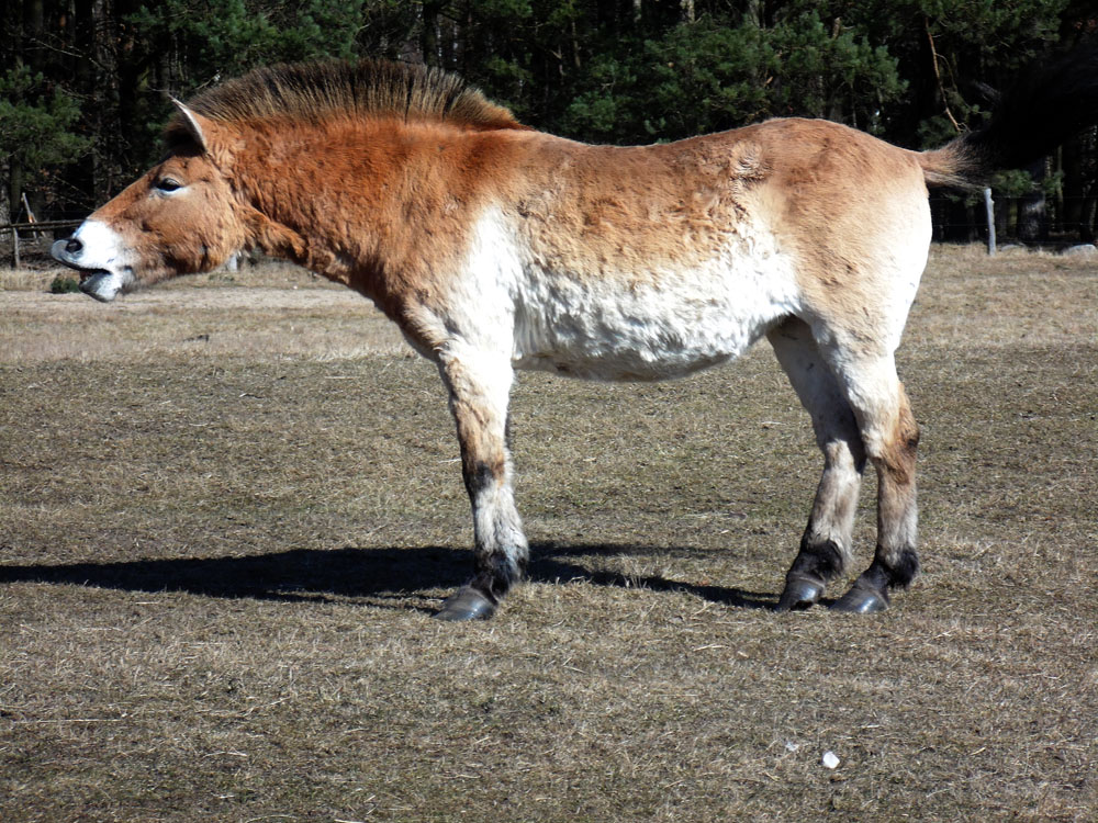 Przewalski's horse showing the flehmen response. Photographed at Wildpark Schorfheide (near Groß Schönebeck, Brandenburg, Germany) where this rare, ancient wild horse is bred in captivity.